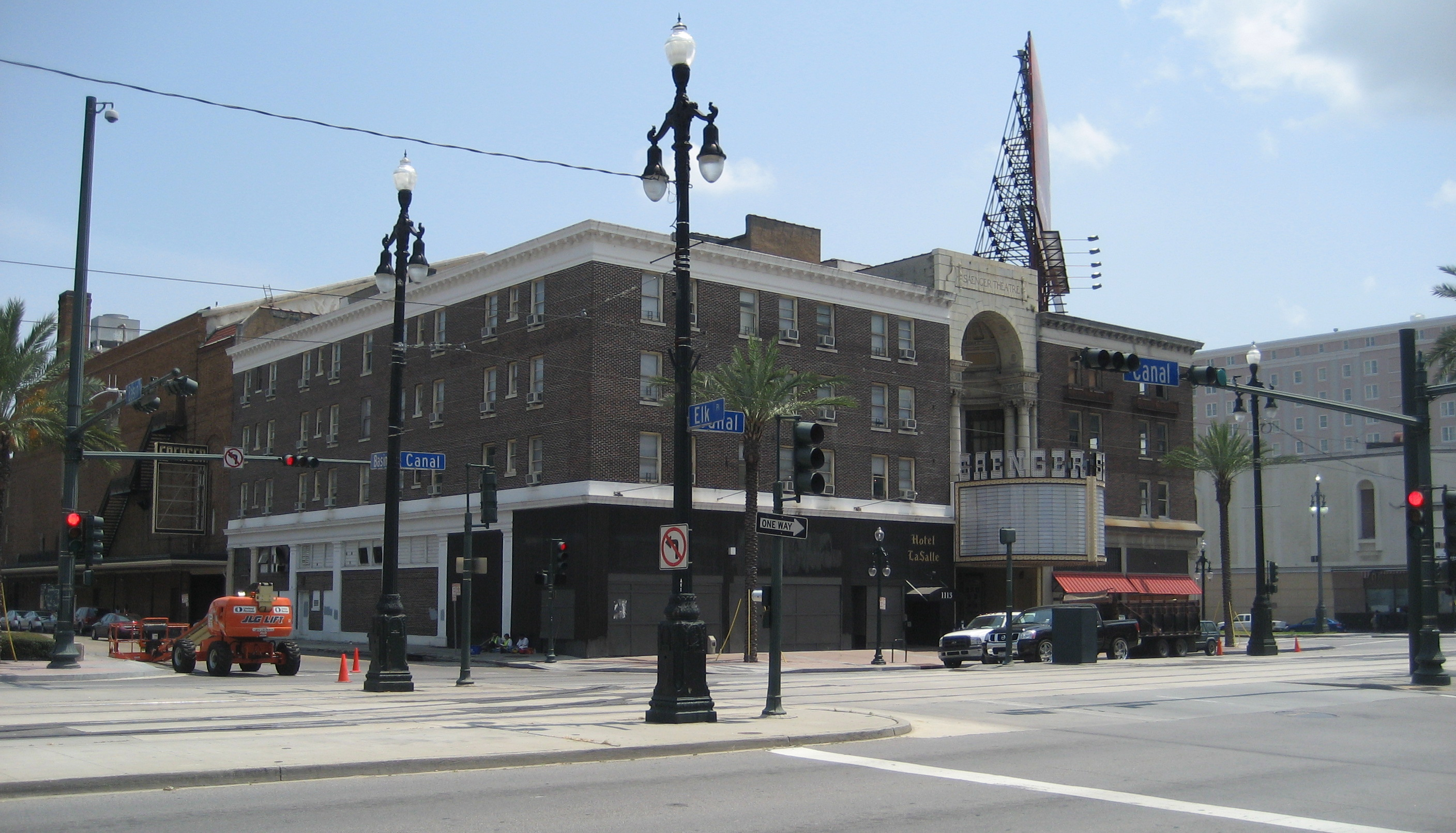 Saenger Theater, Canal Street, New Orleans